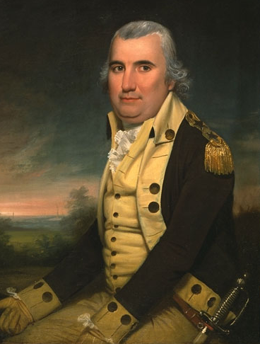 Major General Charles Cotesworth Pinckney (1746-1825)